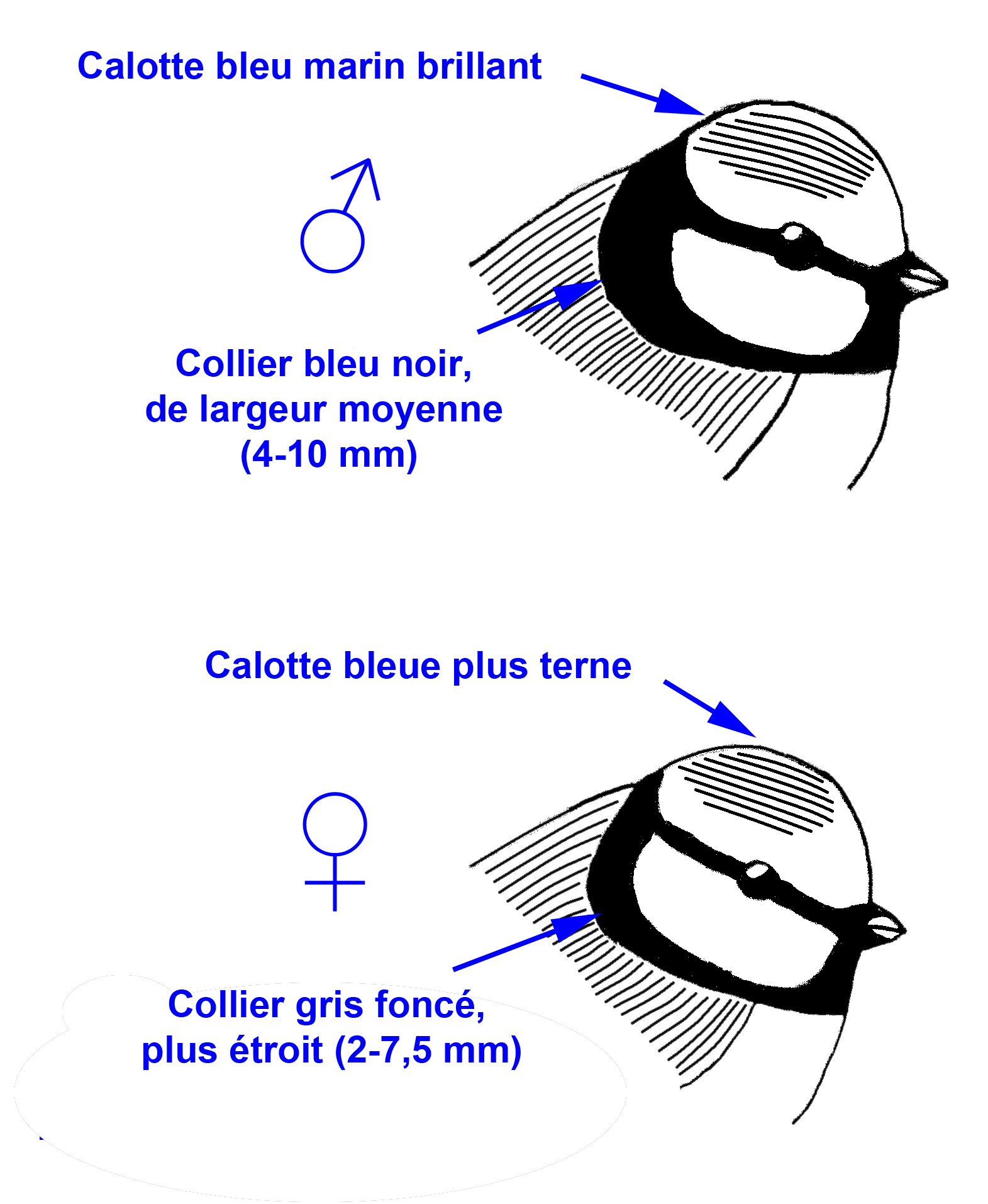 Sex differences of Paraus caeruleus (Blue tit). Adapted from: Manfred Föger, Karin Pegoraro: Die Blaumeise. Neue Brehm Bücherei, Hohenwarleben 2004, ISBN 3-89432-862-2